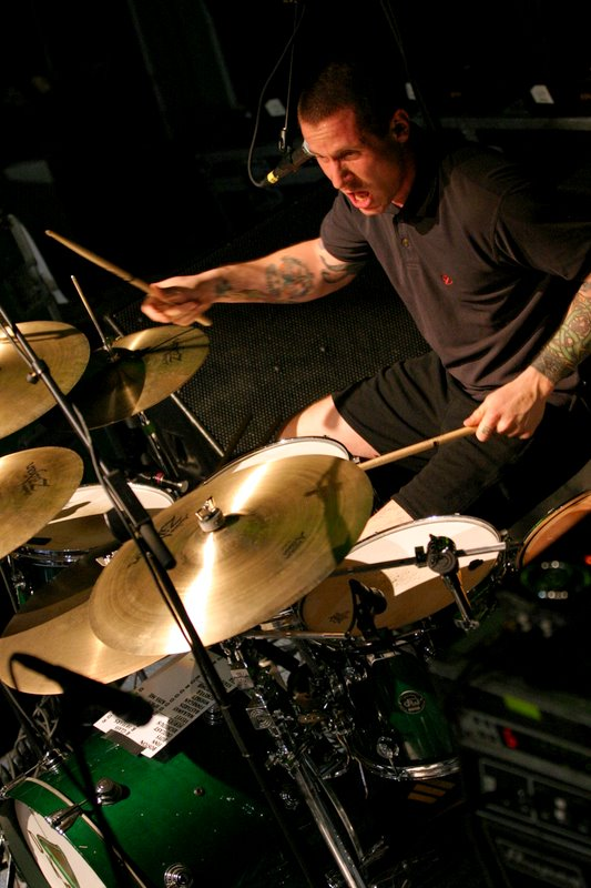 Matt Kelly live